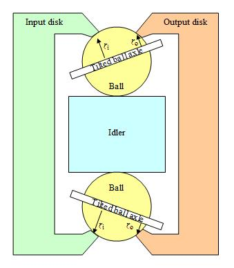 Tilting ball variator